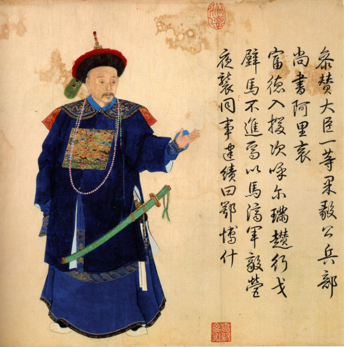 Arigun (阿里衮), a manchu officer of the Qing Army during Qianlong's era